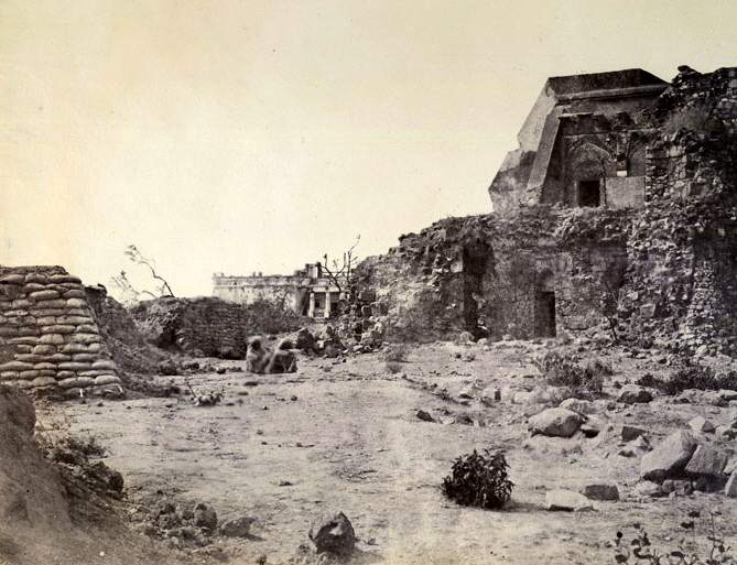 Photograph entitled, [Ruins of the] Observatory, Delhi, from the 'Murray Collection: Views in Delhi, Cawnpore, Allahabad and Benares' taken by Dr. John Murray in 1858. The ruins are of the Jantar Mantar observatory which was damaged in the fighting. Downloaded by Fowler&fowler«Talk» 01:59, 5 March 2008 (UTC) from the British Library Website